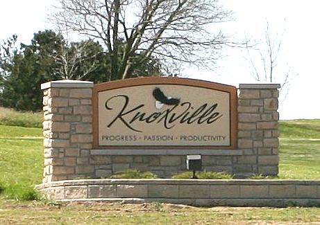 City sign for Knoxville, Iowa.